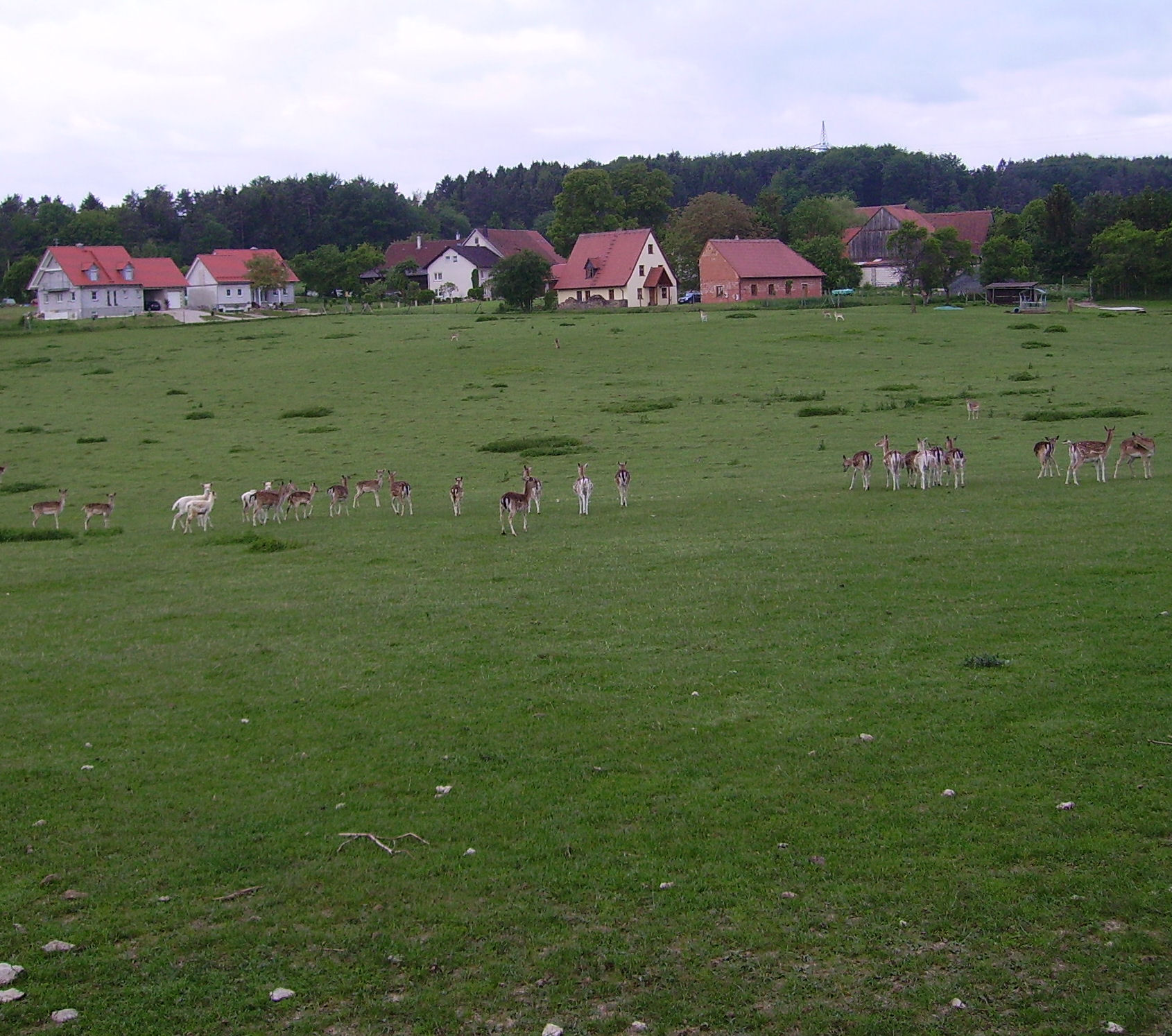 village of Marktgemeinde Heiligenstadt near Bamberg (Upper Franconia) in Germany